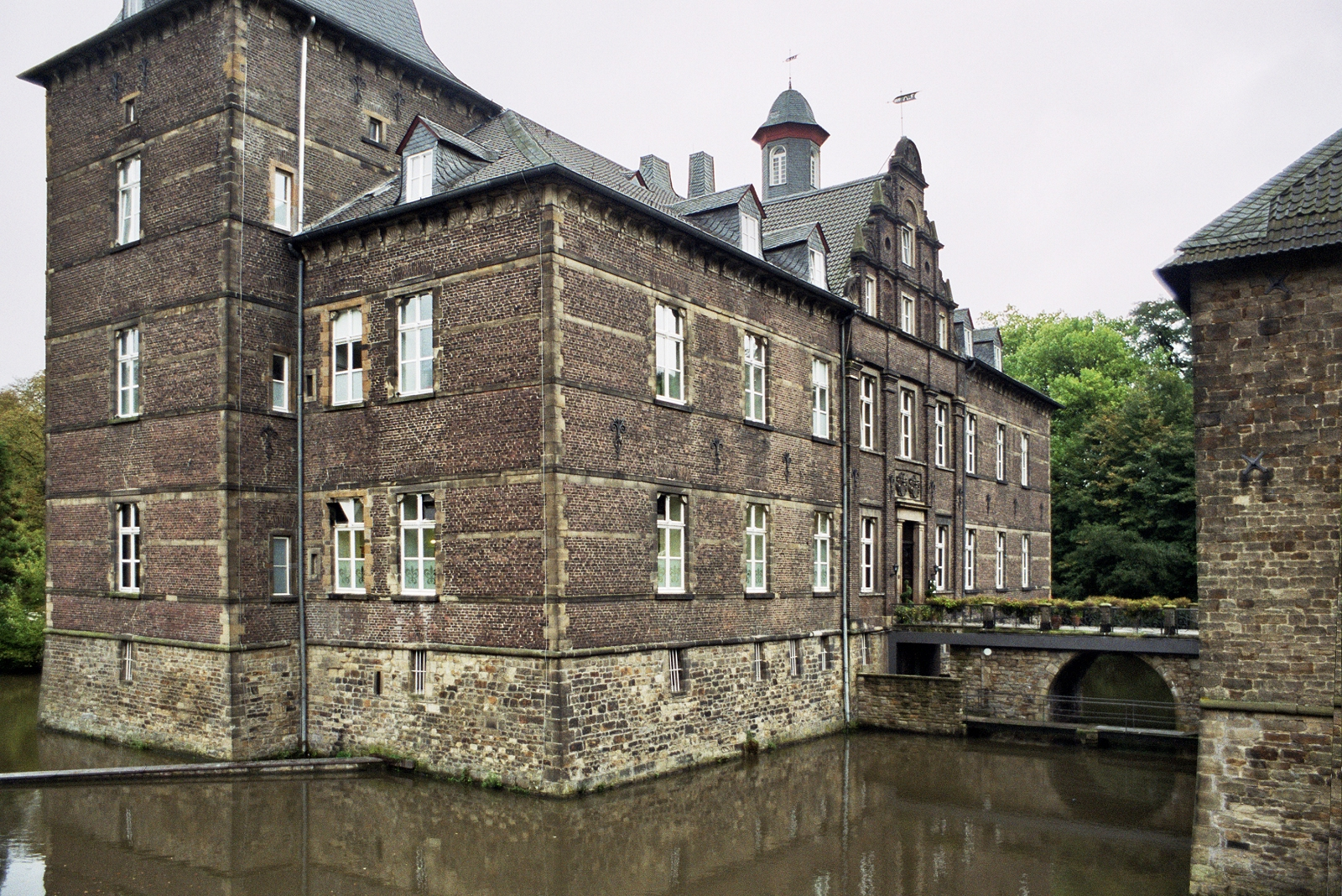 Hugenpoet Castle, Essen-Kettwig - main building